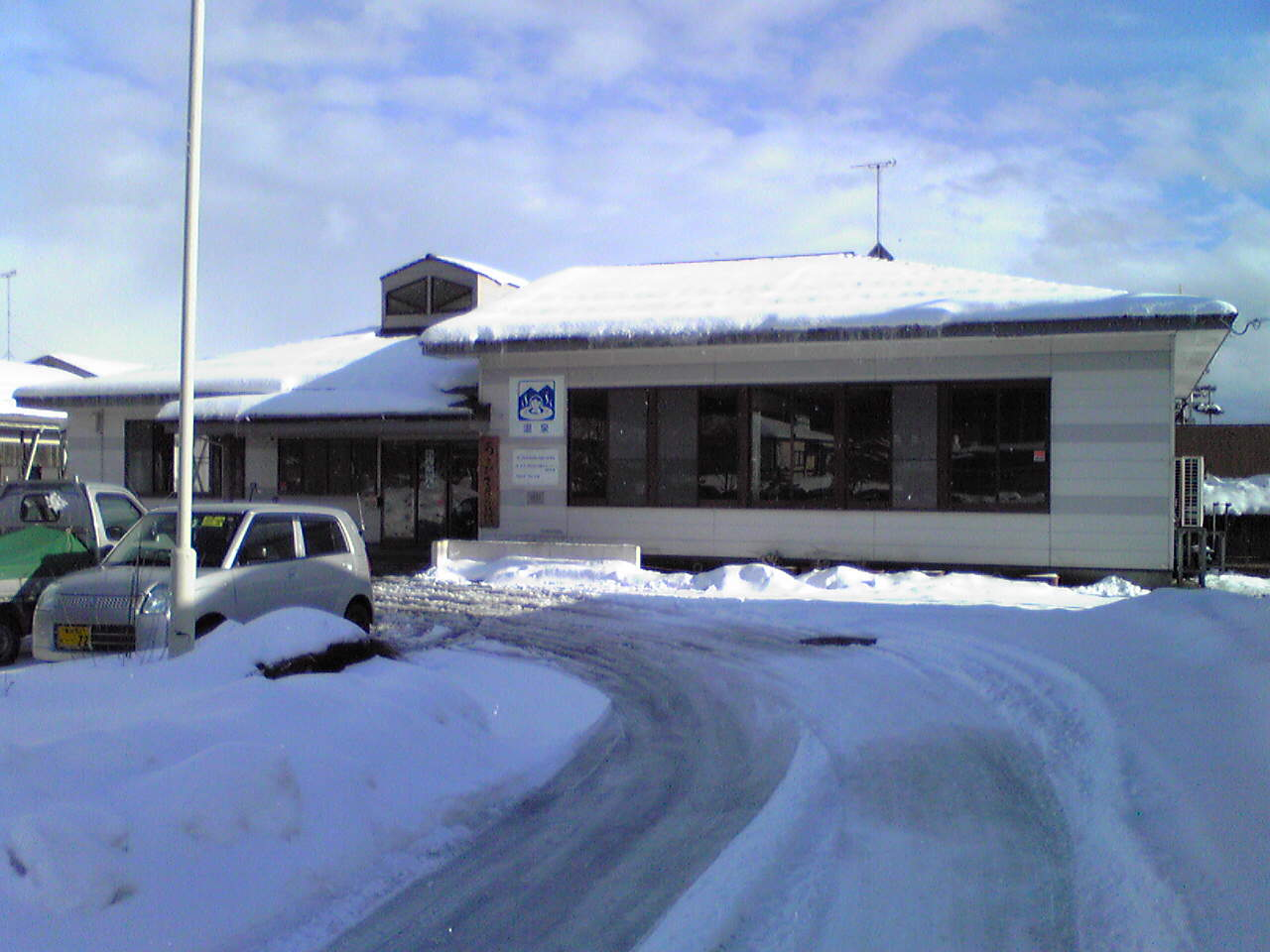 Public bathhouse "Asahi Mahoroba Fureai Center" at Michinoeki Asahi in Murakami City, Niigata Prefecture, Japan